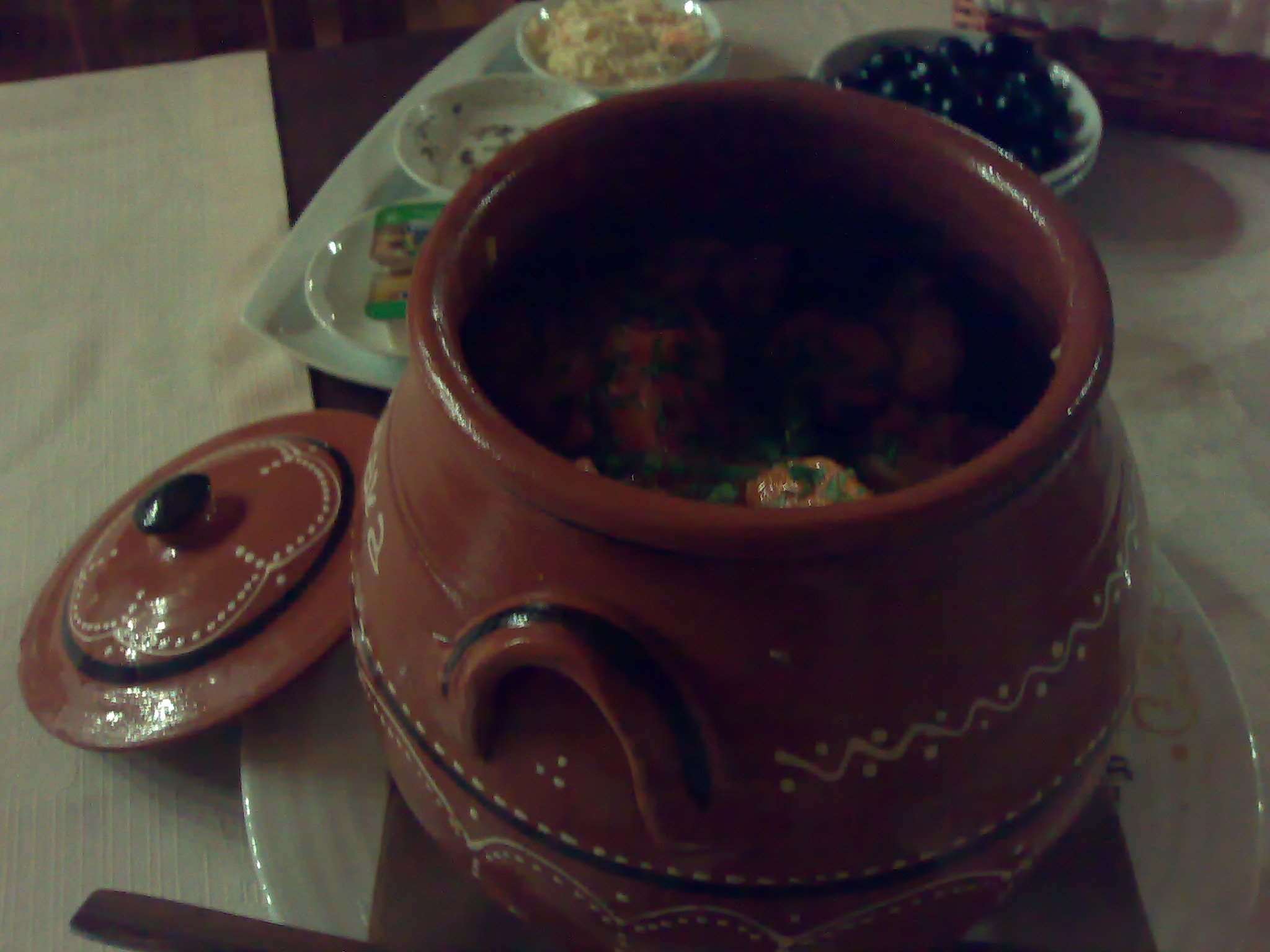 Frango na púcara, a portuguese dish from Alcobaça.